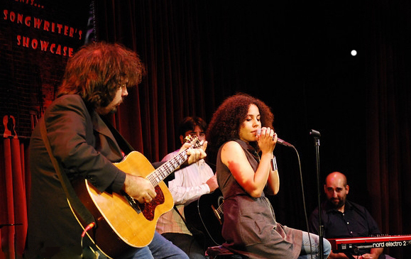 Lizette Santana performing at Singer songwriters round for Chrystal Hartigan showcase at the Broward Performance Center for the Arts.